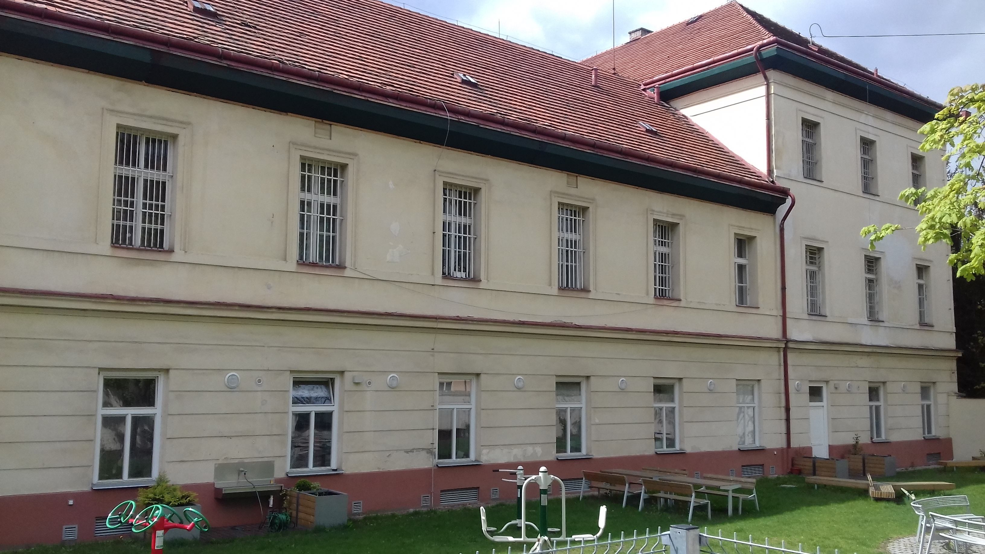 building of the psychiatric clinic in Prague 2 - part of Faculty of Medicine Charles University